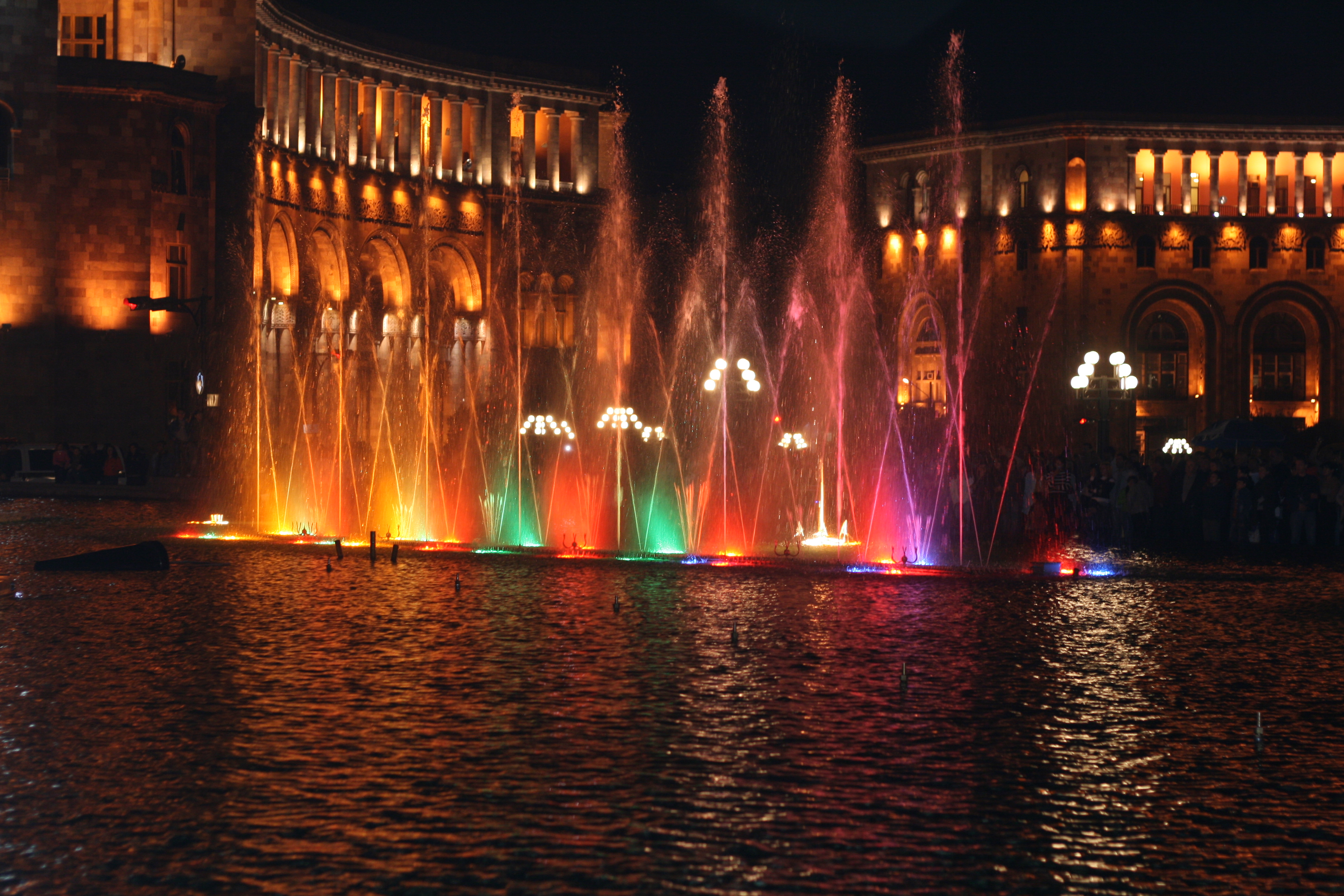 Dancing Fountains in Republic Square, Yerevan, Armenia. Photographed on 25 October 2007.